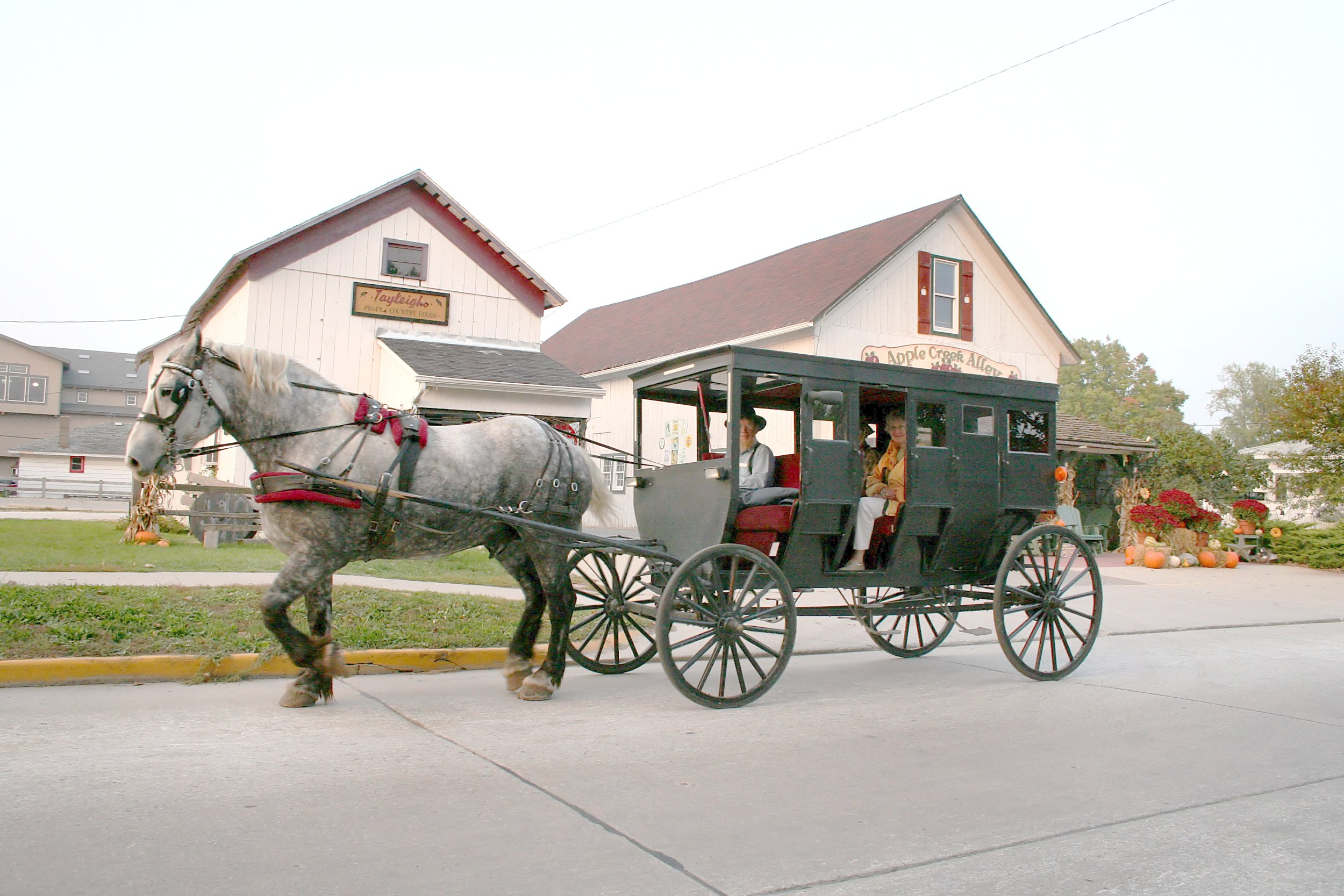 Amish buggy offering tourist rides in Shipshewana, Indiana. Photo shot by Derek Jensen (Tysto), 2005-October-13